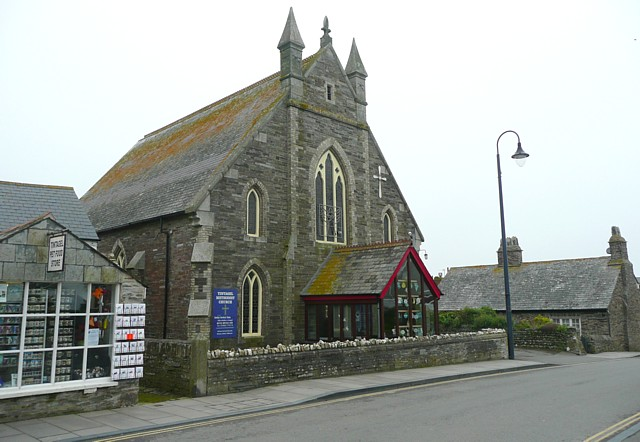 The Methodist Church, Tintagel Most of the village of Tintagel was built in the 19C when tourism started.